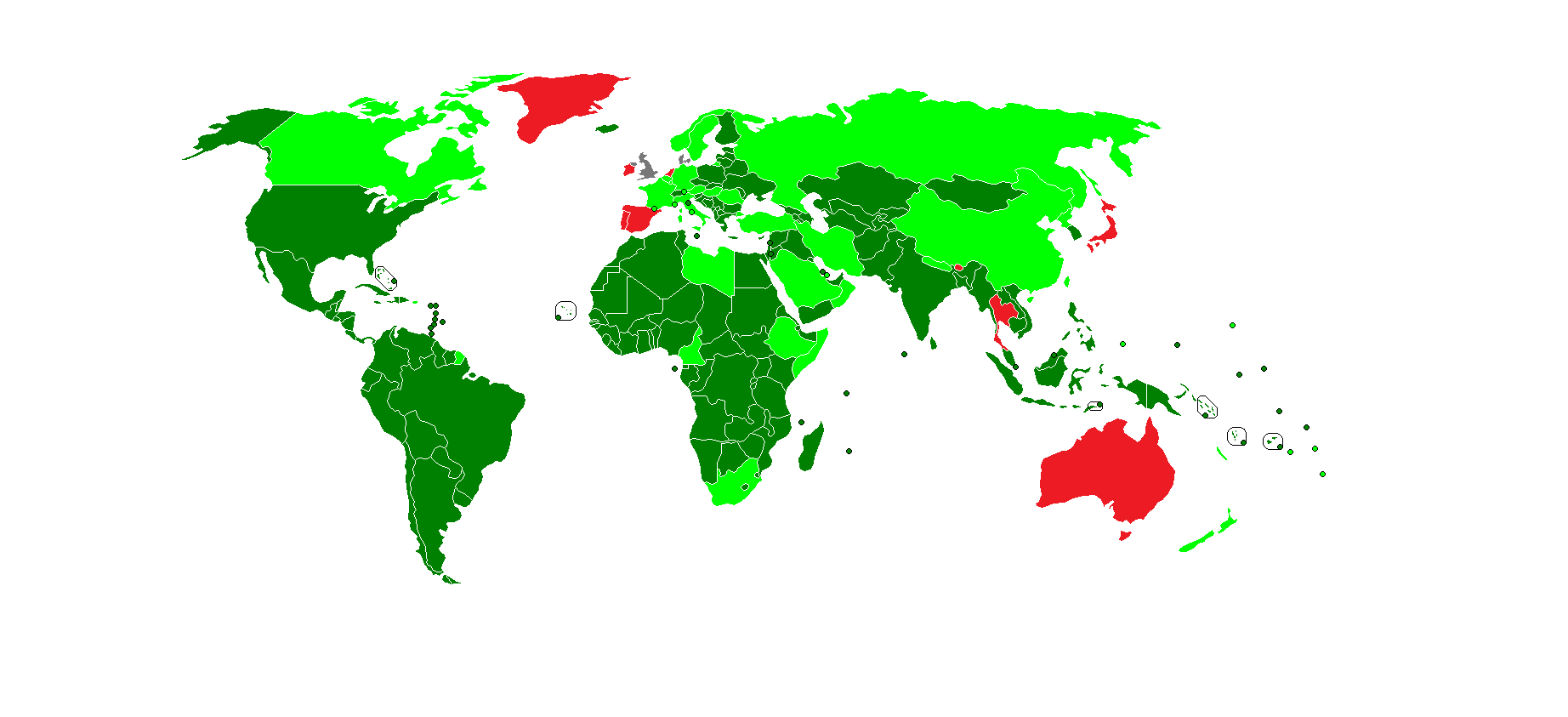 Dark green - independence related national day; light green - other national day; gray - no official national day